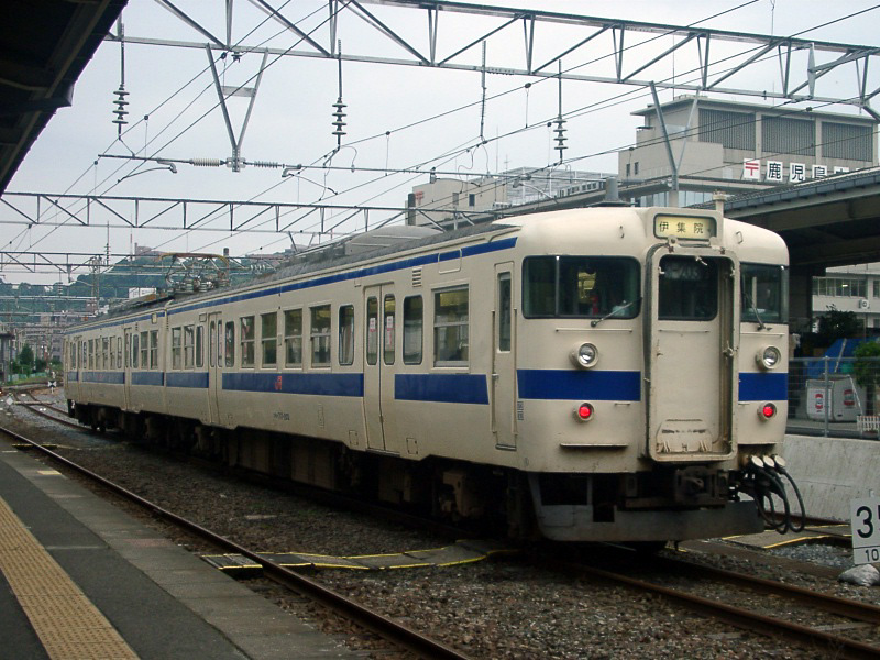 JR Kyushu 717-200 series EMU at Nishi-Kagoshima Station in Kagoshima, Japan